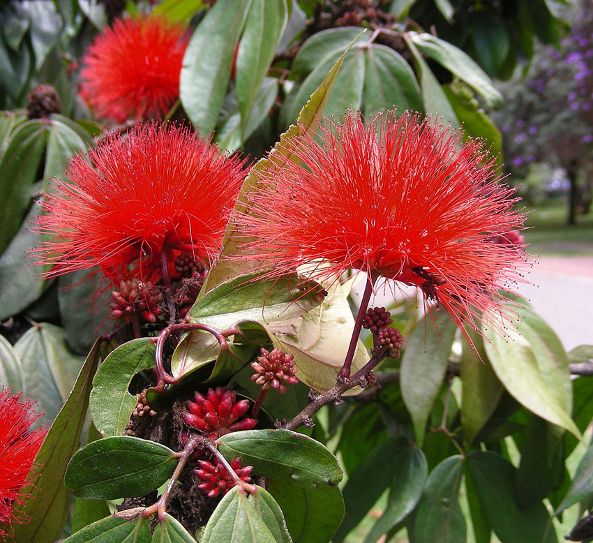 Native to the mountains from Venezuela to Peru. Photo from the Botanical Gardens of Bogota. In context at